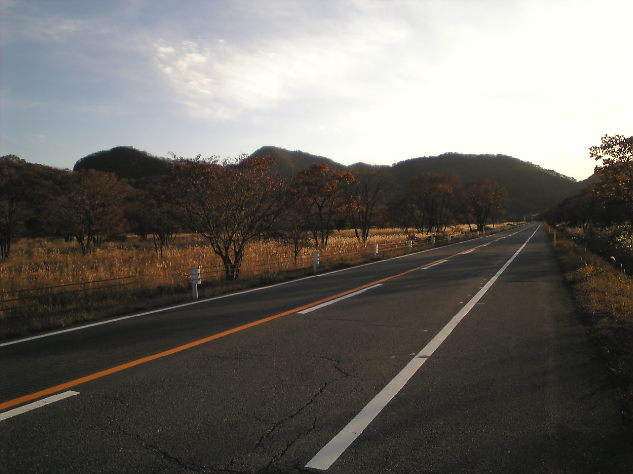 The Gunma Prefectural Road Route 33 in Takasaki City